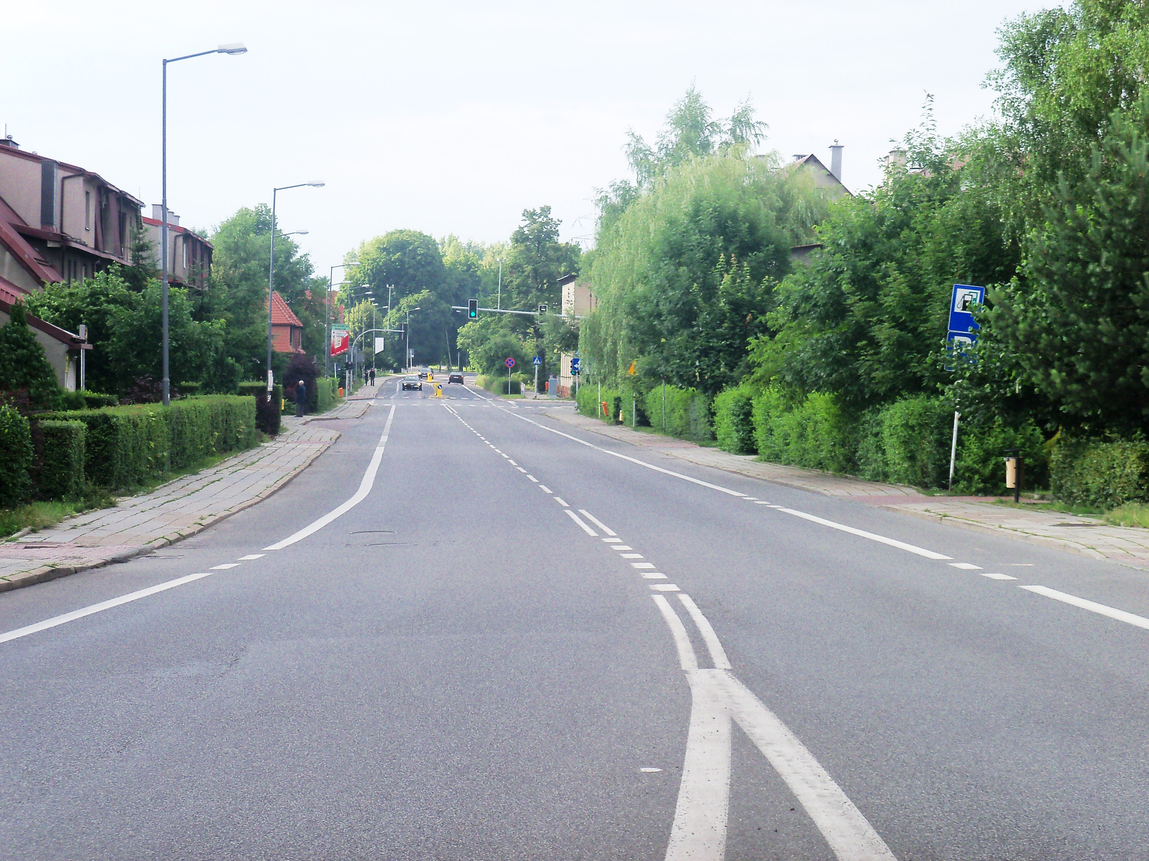 Bielska Street in Katowice